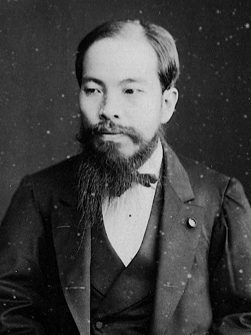 Togama Kōno (1844–95)